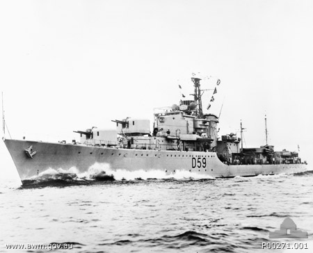 Photograph of Australian destroyer HMAS ANZAC during acceptance trials in 1951.